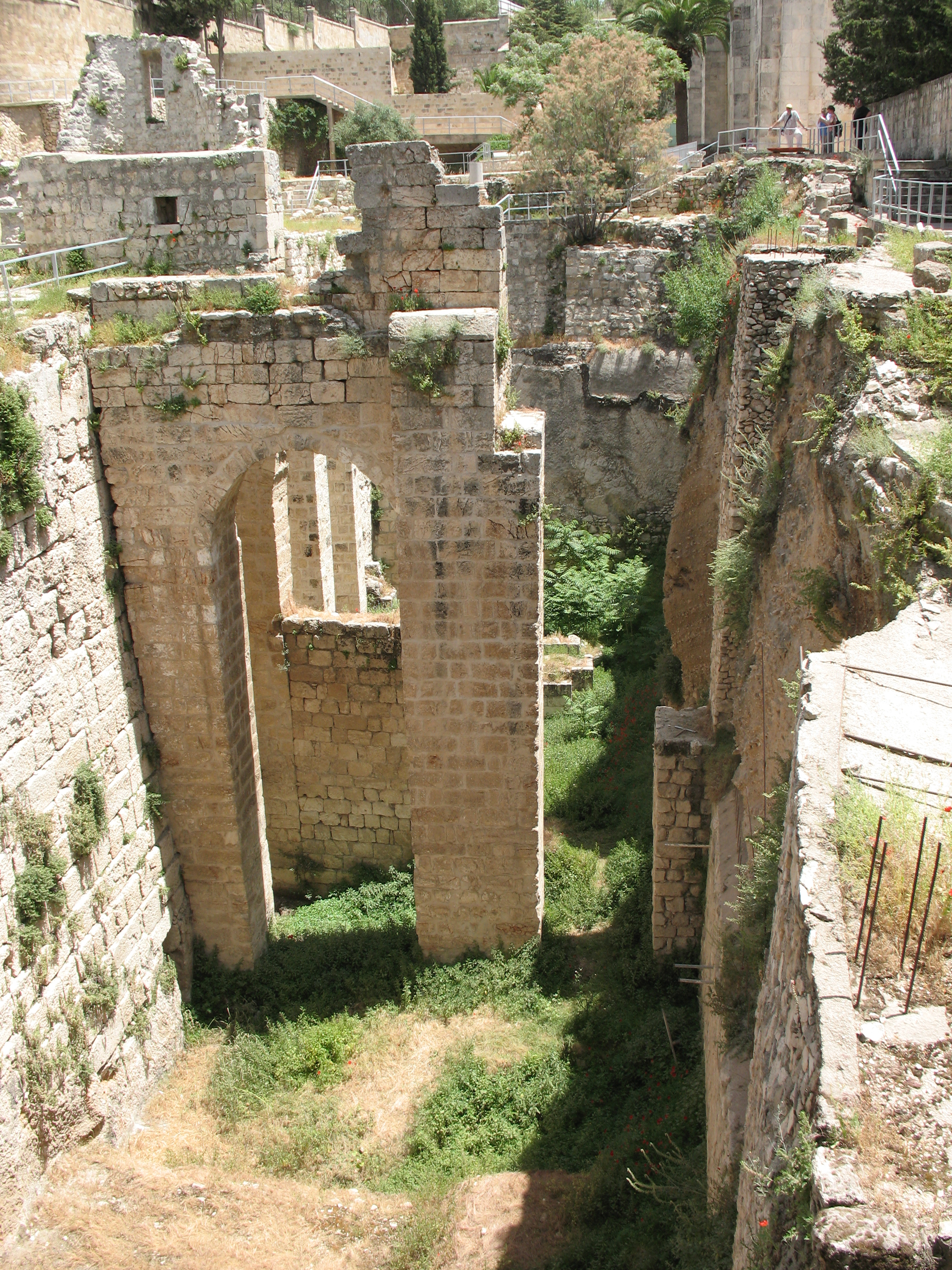 Bethesda. Jerusalem